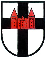 Coat of arms of the district of Neidenburg, East Prussia, Prussia, Germany